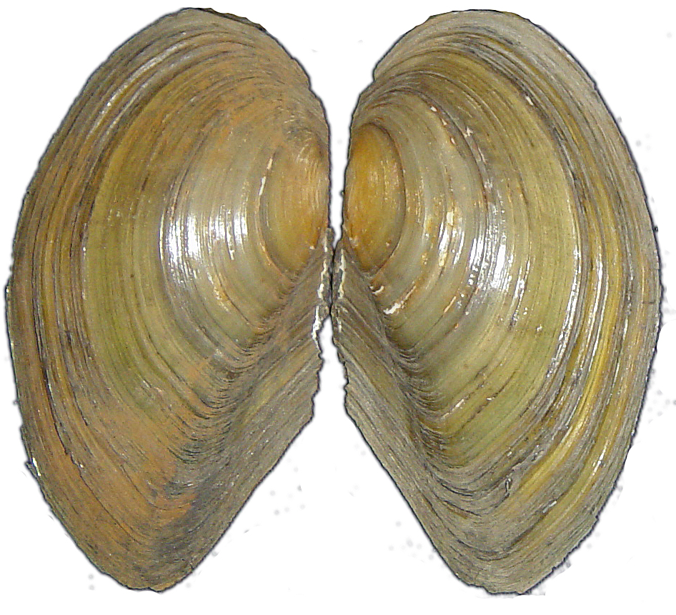 Anodonta cf. anatina from a small artificial lake Near Kirchheim unter Teck, Baden-Württemberg, Germany. Found dead. I think that it is Anodonta cygnea according the shape. Determination by --Snek01 00:55, 28 February 2007 (UTC)